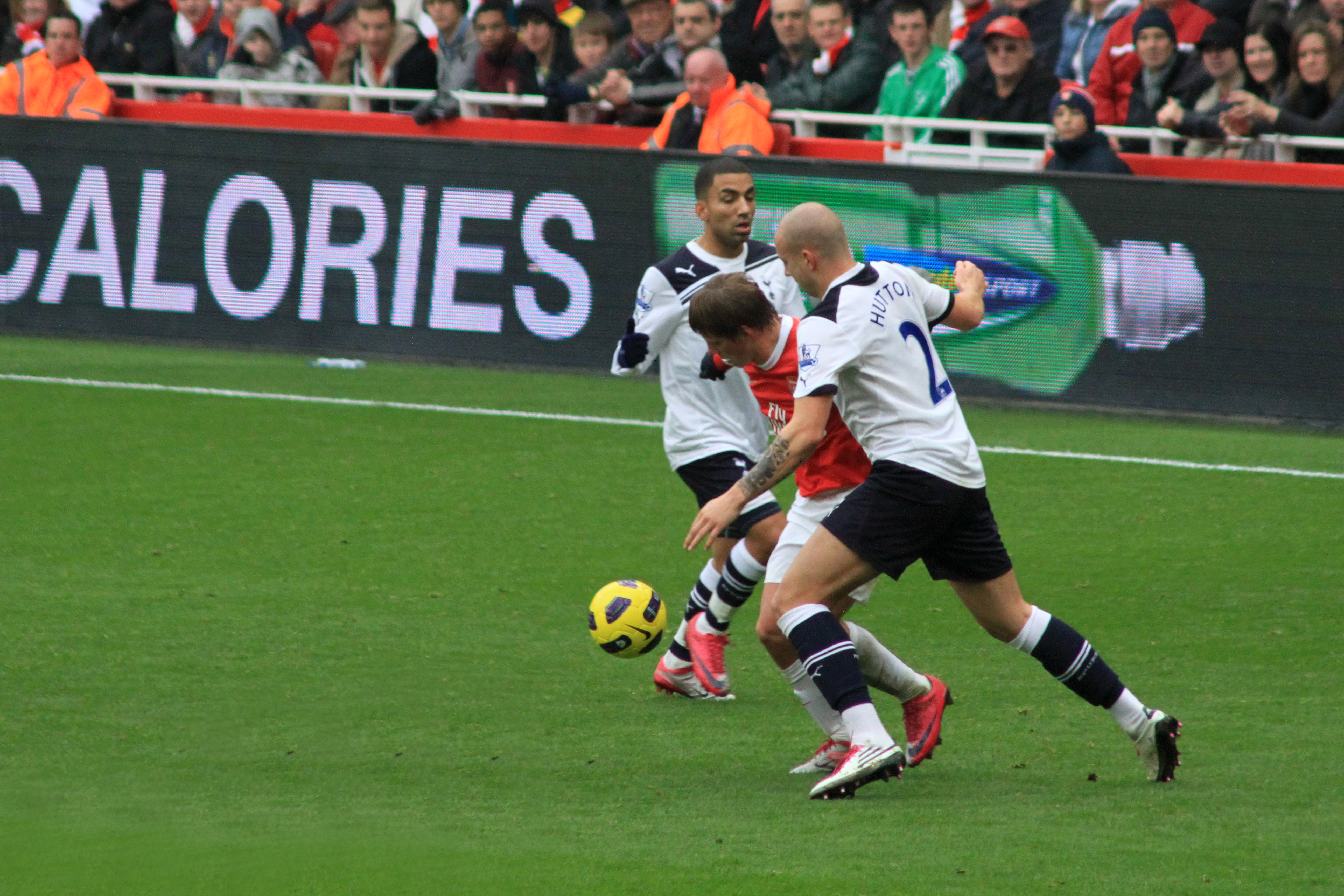 Andrei Arshavin of Arsenal defended by Alan Hutton (2) and Aaron Lennon o Tottenham.